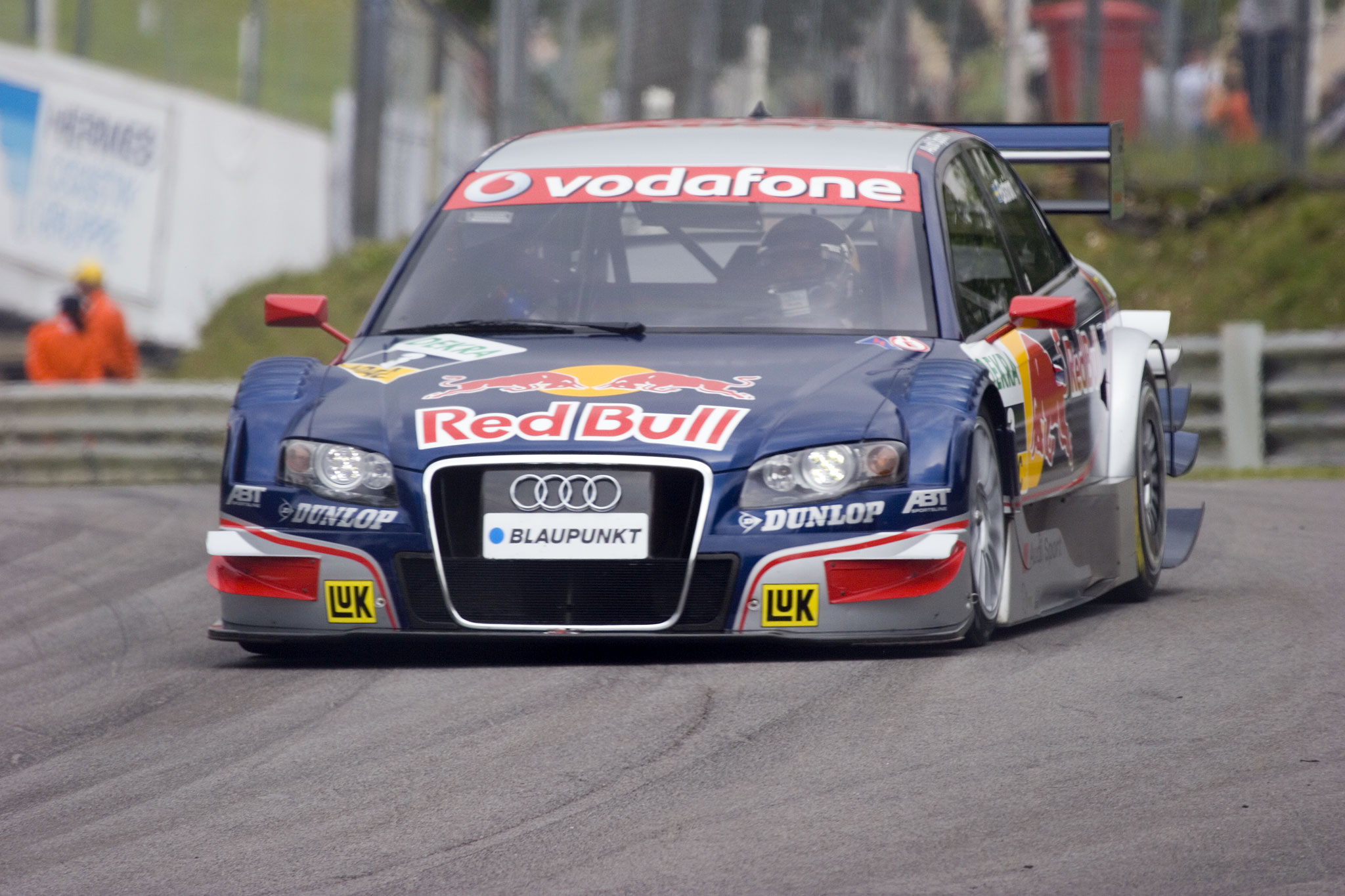 DTM Practice at Brands Hatch 9th June 2007 (Mattias Ekström)